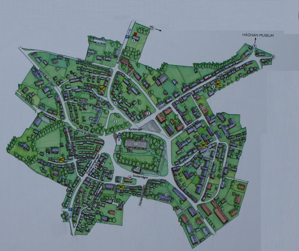 Nederluleå (Lower Luleå) church is the largest mediaeval church in Norrland. (Gammelstad,Sweden)